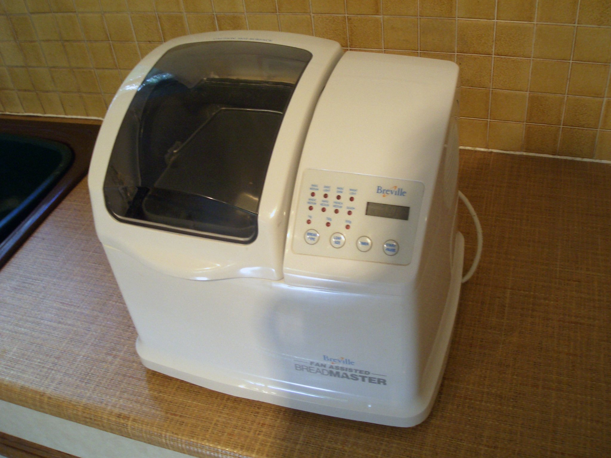 Breadmaker